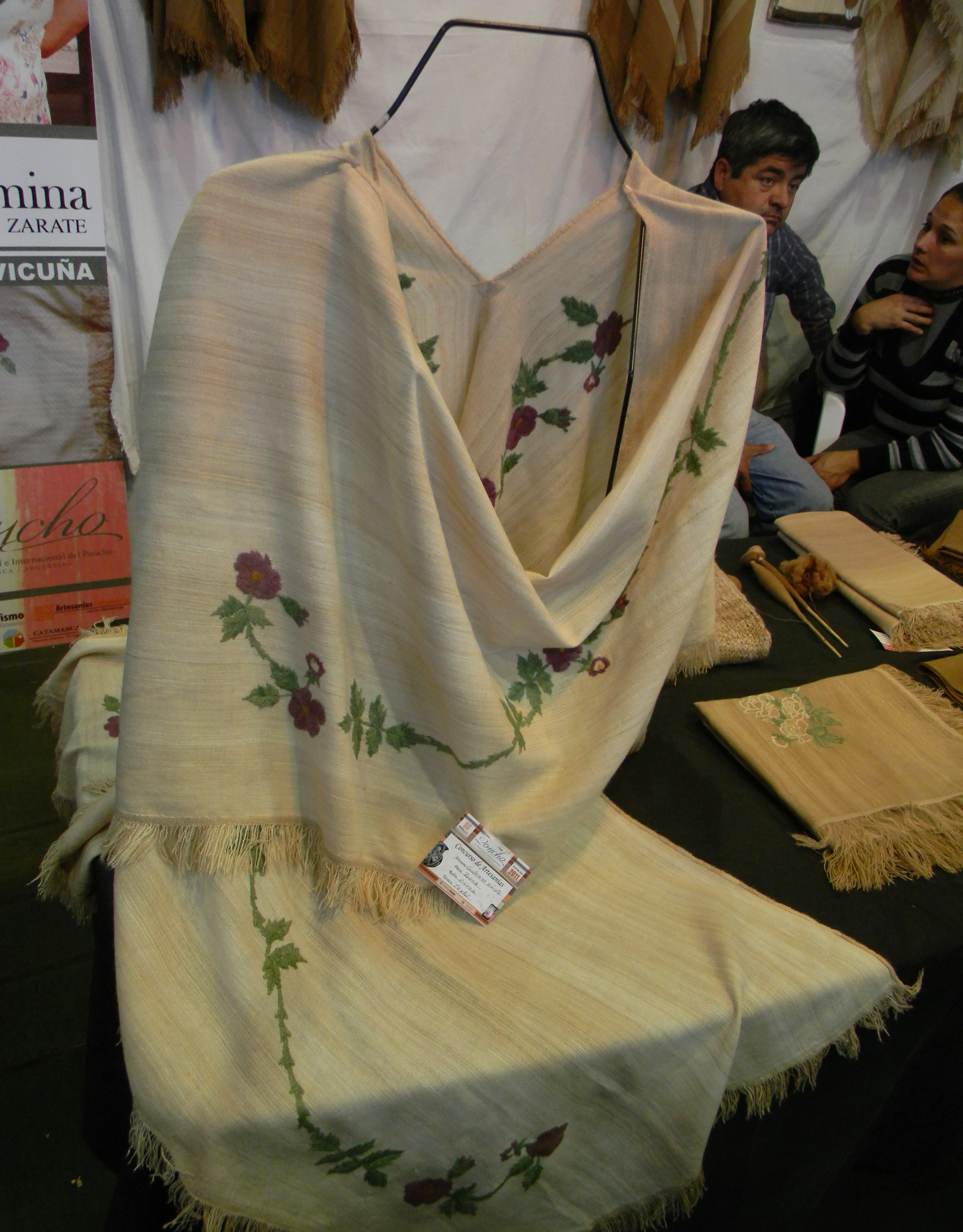 Handmade ruana of vicuña yarn exhibited in the National and International Festival of the Poncho.